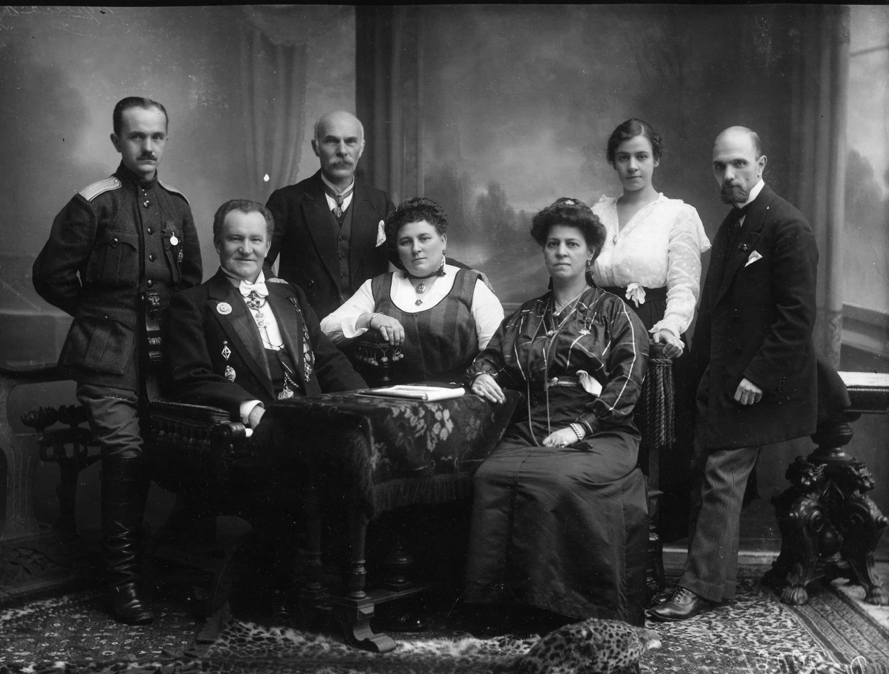 Owner of the photo studio K.K. Bulla (1853—1929) with family; standing - from left to right: Aleksandr (son), Karl Karlovich, Vera Konstantinovna (wife of Victor Bulla), Victor (son). Sitting - from left to right: honoured artist of the Imperial Theatre Konstantin Terentievich Serebryakov, father of Vera Konstantinovna, Khristina Ivanovna - wife of К.К.Bulla and Maria Andreyevna Serebryakova, mother of Vera Konstantinovna. 1914